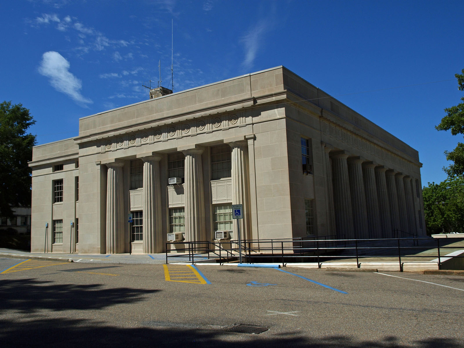 The Elmore County Courthouse in Wetumpka, Alabama